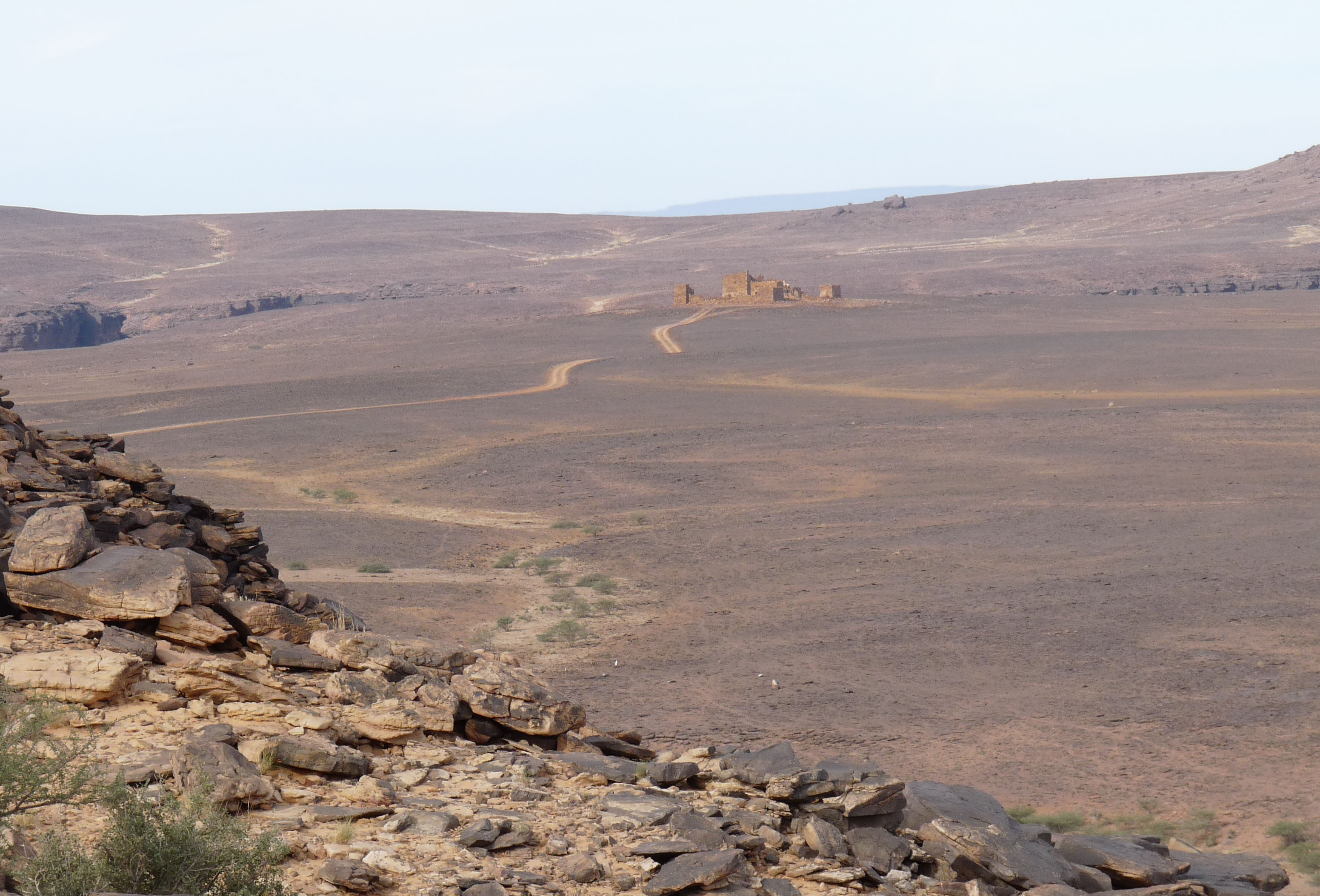 Fort Saganne (passe d'Amogjar, Mauritania)